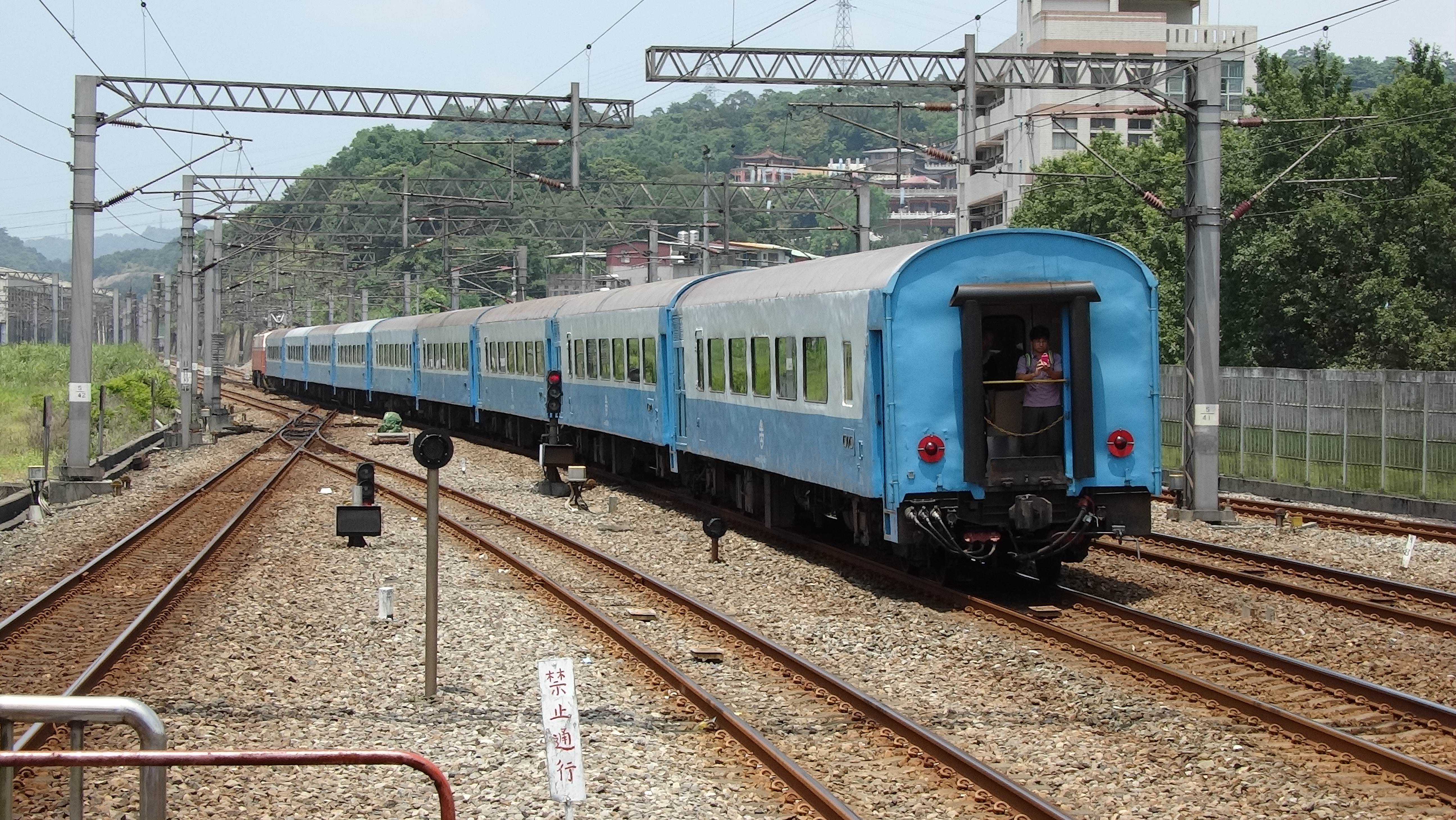 TRA Fu-Hsing Express train passed Qidu Station.中文（台灣）: 臺灣鐵路管理局復興號列車通過七堵車站。